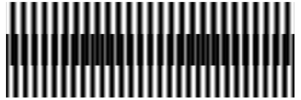 Two overlaping sine stripe patterns create a line moire. Picture created in Mathematica 5.2.